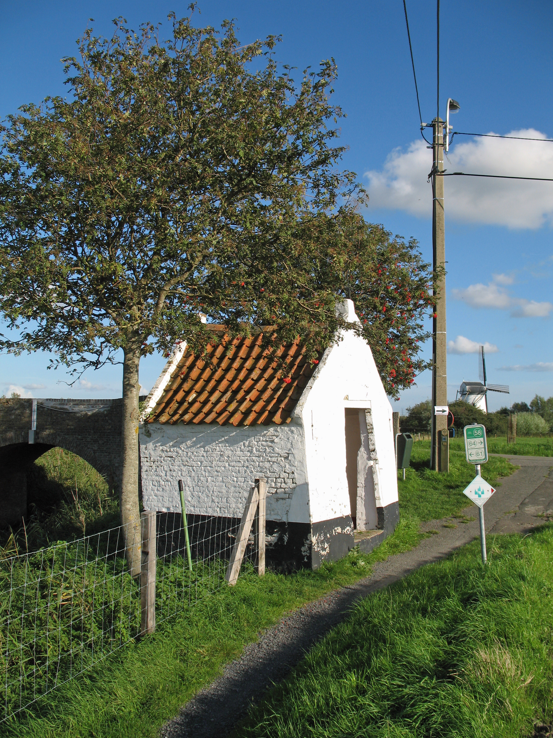 Meetkerke (municipality of Zuienkerke, province of West Flanders, Belgium): wayside chapel of the Vaartwegel